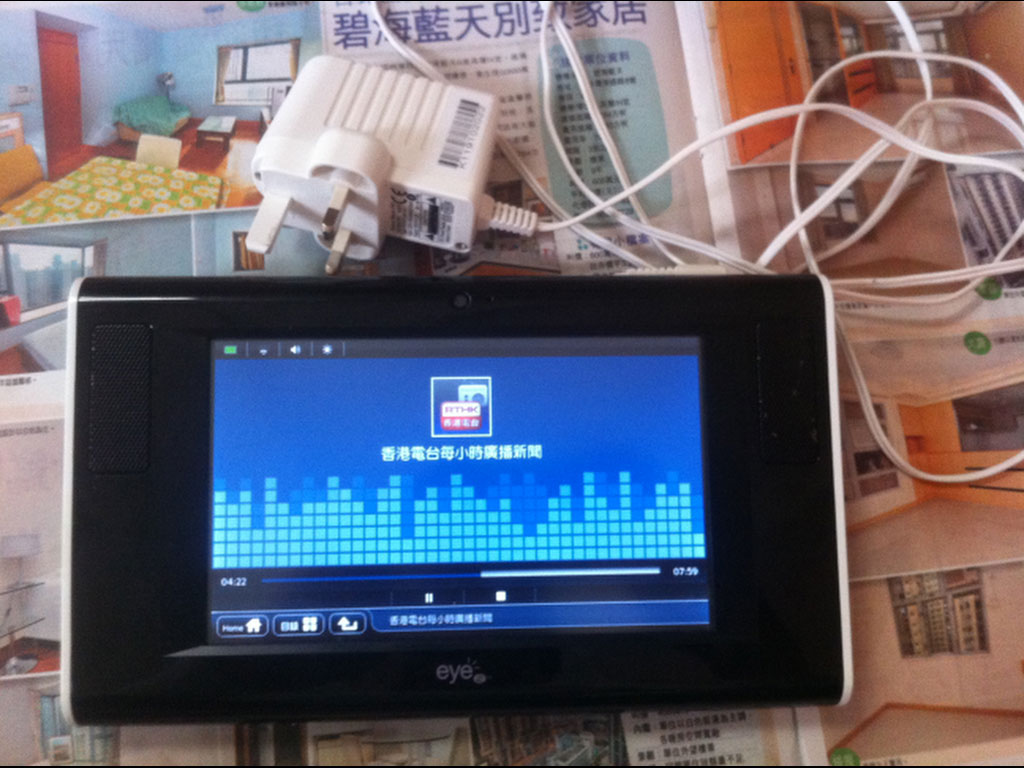 PCCW Home monitor Eye2 RTHK Radio Feb-2012 with power supply cable